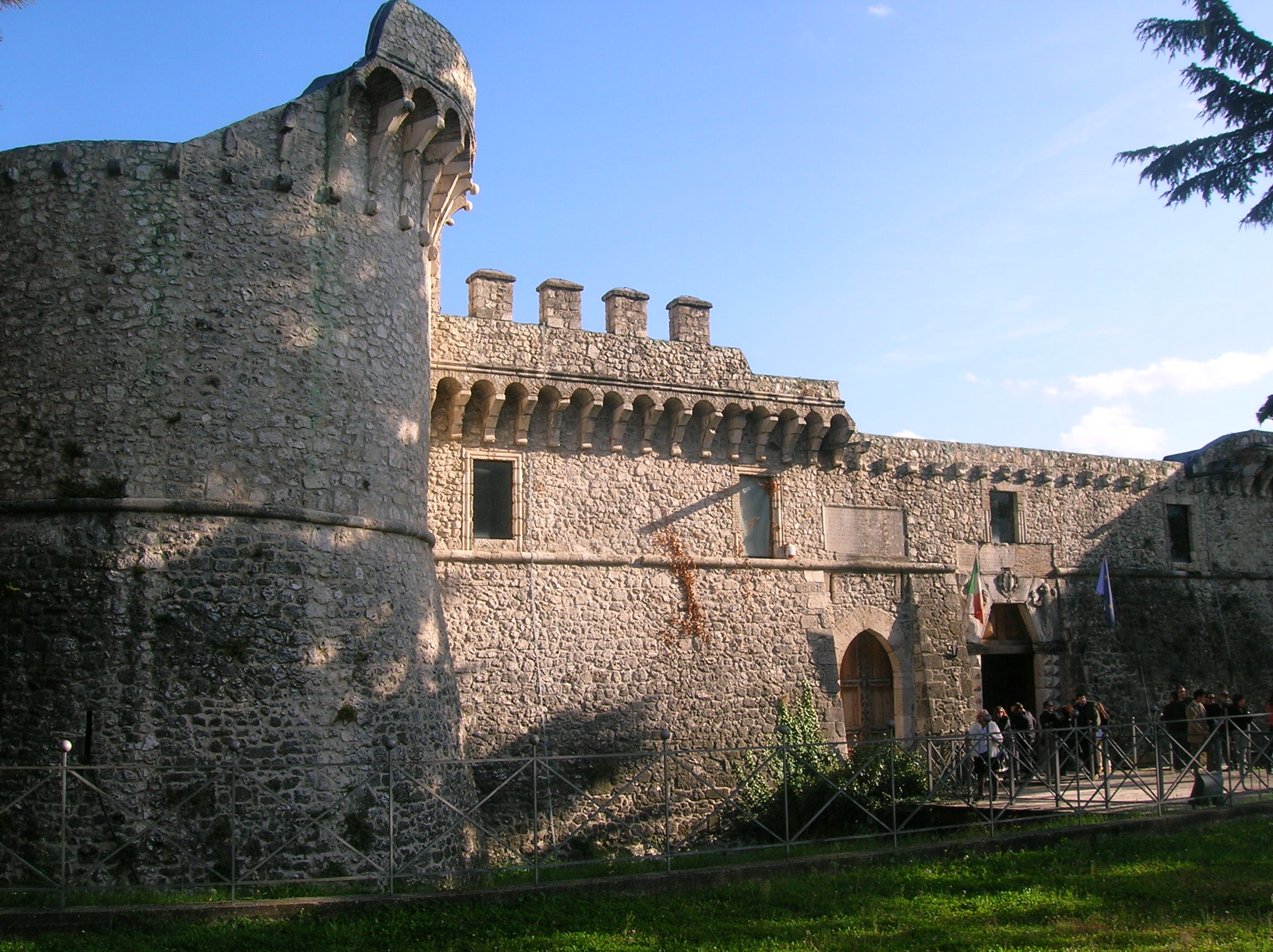 The Orsini-Colonna Castle (Castello Orsini-Colonna) in the city of Avezzano (Province of L'aquila, Abruzzo, Italy)